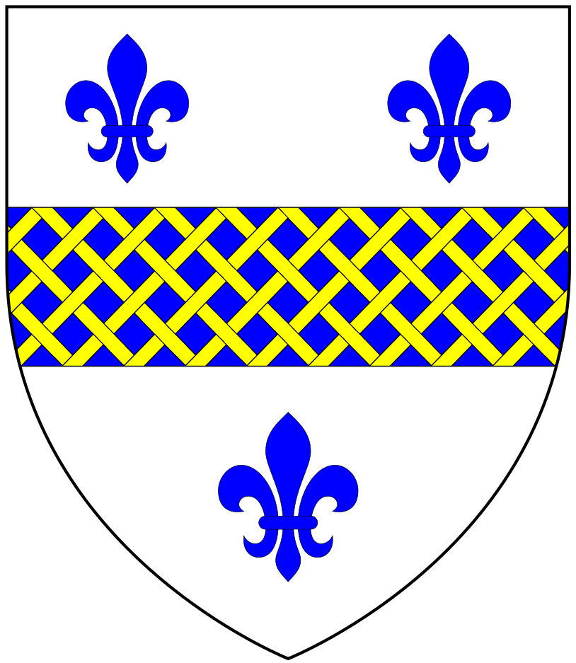 Arms of Warwick of St Budeaux and of Hoilbeton, Devon: Argent, a fess azure fretty or between three fleurs-de-lys of the second. Pole, Sir William (d.1635), Collections Towards a Description of the County of Devon, Sir John-William de la Pole (ed.), London, 1791, p.507, blazon re-phrased